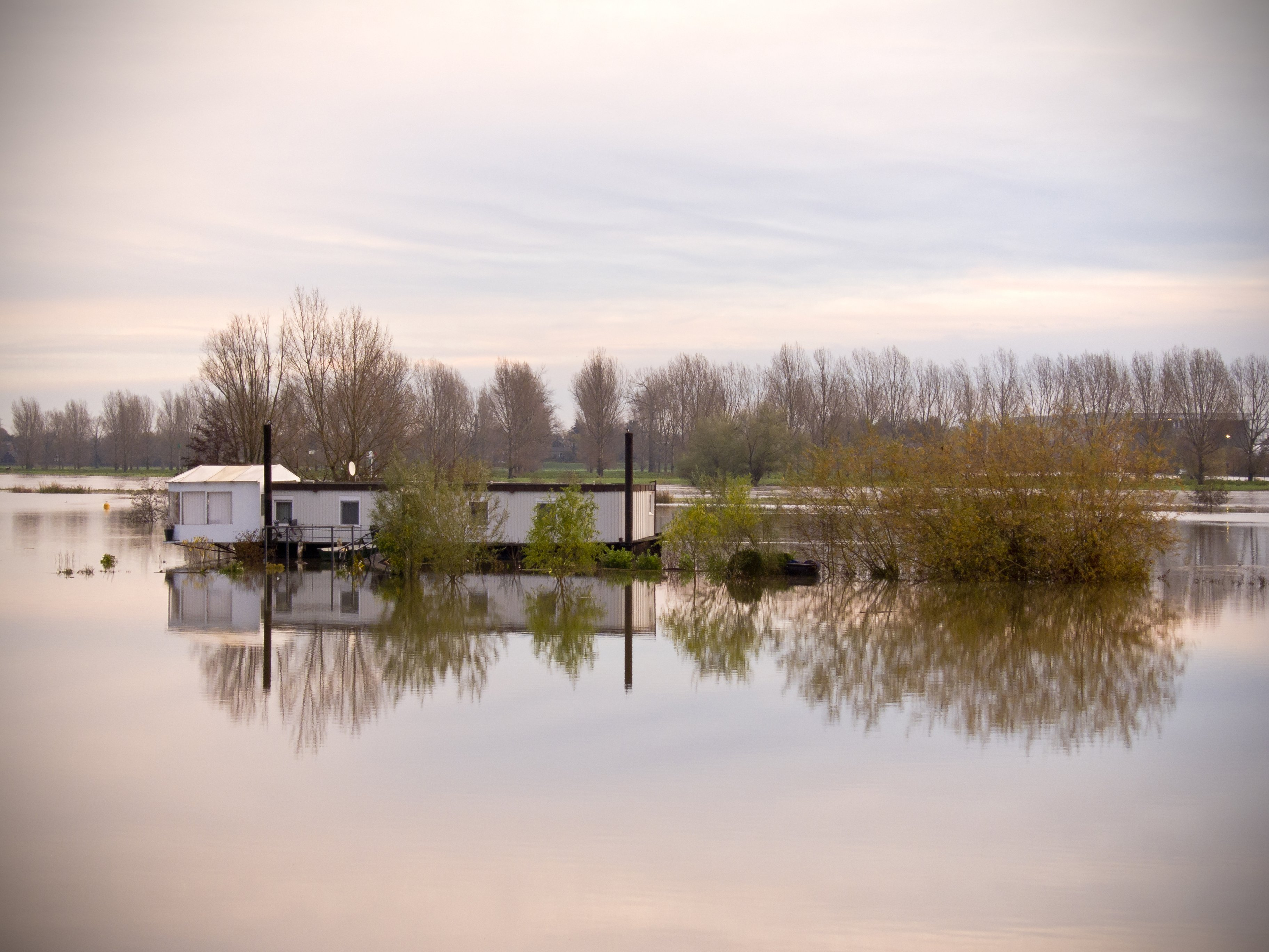 After a weekend of non-stop rainfall the water in the river Maas near Roermond (the Netherlands) has reached a level of almost 2 metres above normal.